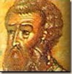 Mara Bar Serapion